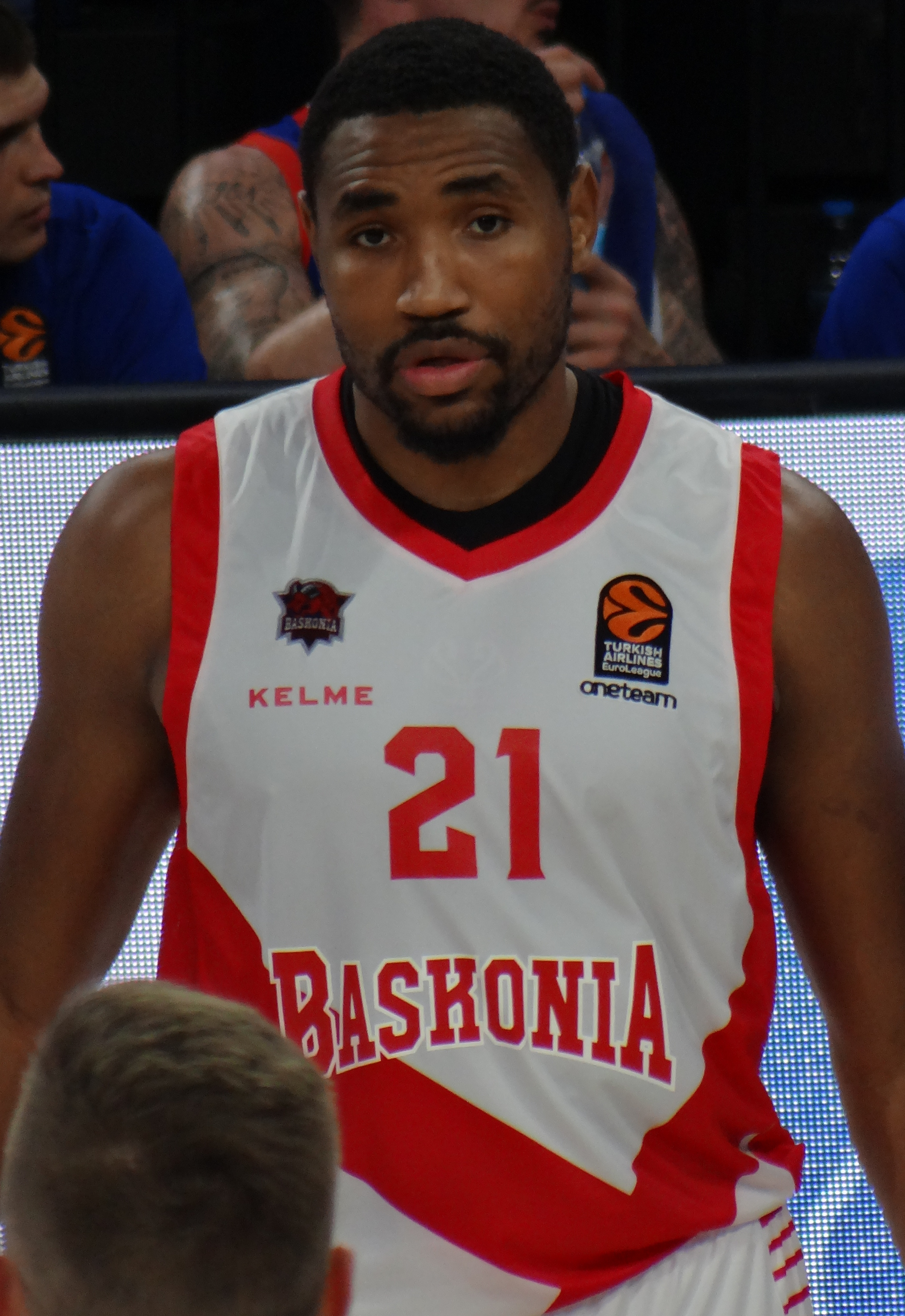 Kevin Jones 21 - Saski Baskonia 20171215